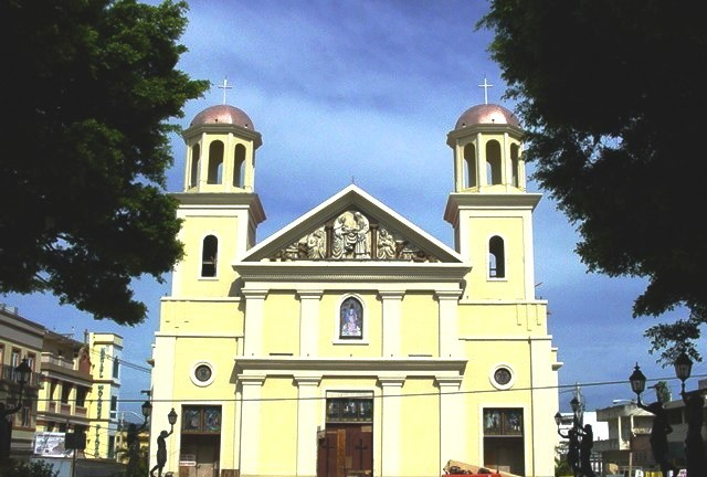 I took this one myself in 2005 (before the Plaza in front of it was remodeled and the church painted orange (go figure...)